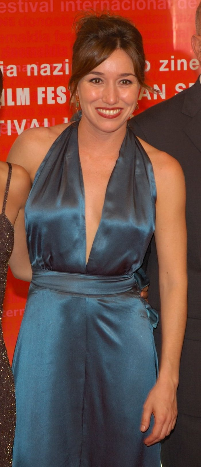 Spanish actress Lola Dueñas.